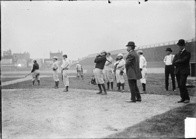 Baseball players, Chicago Orphans and Cleveland Bronchos, looking across on the baseball field at West Side Grounds in the Near West Side community area of Chicago, Illinois. Man shown at right with mustache and wearing suit appears to be Cleveland manager Bill Armour